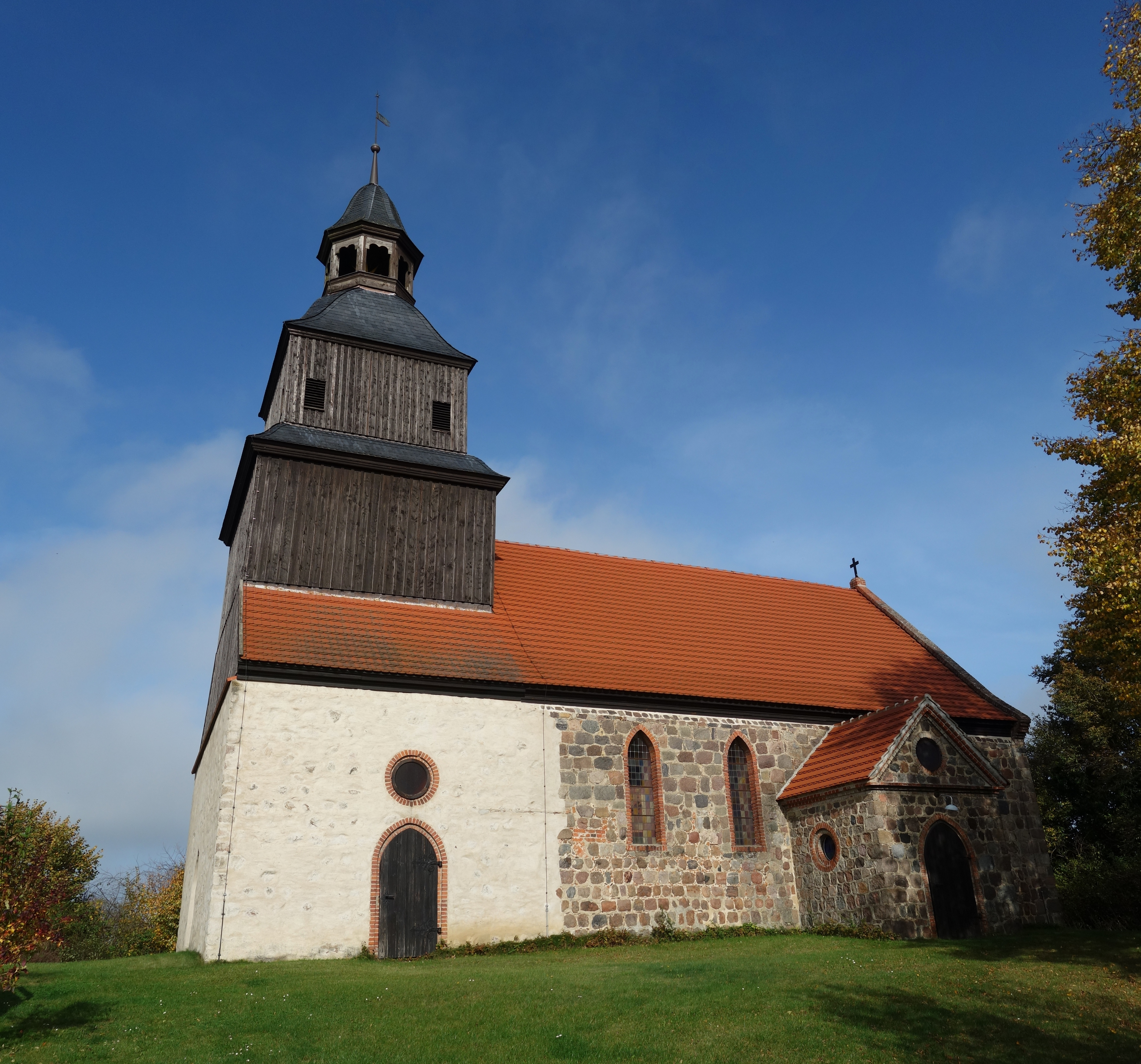 Souther view of church in Jakobshagen, Boitzenburger Land municipality, Uckermark district, Brandenburg state, Germany